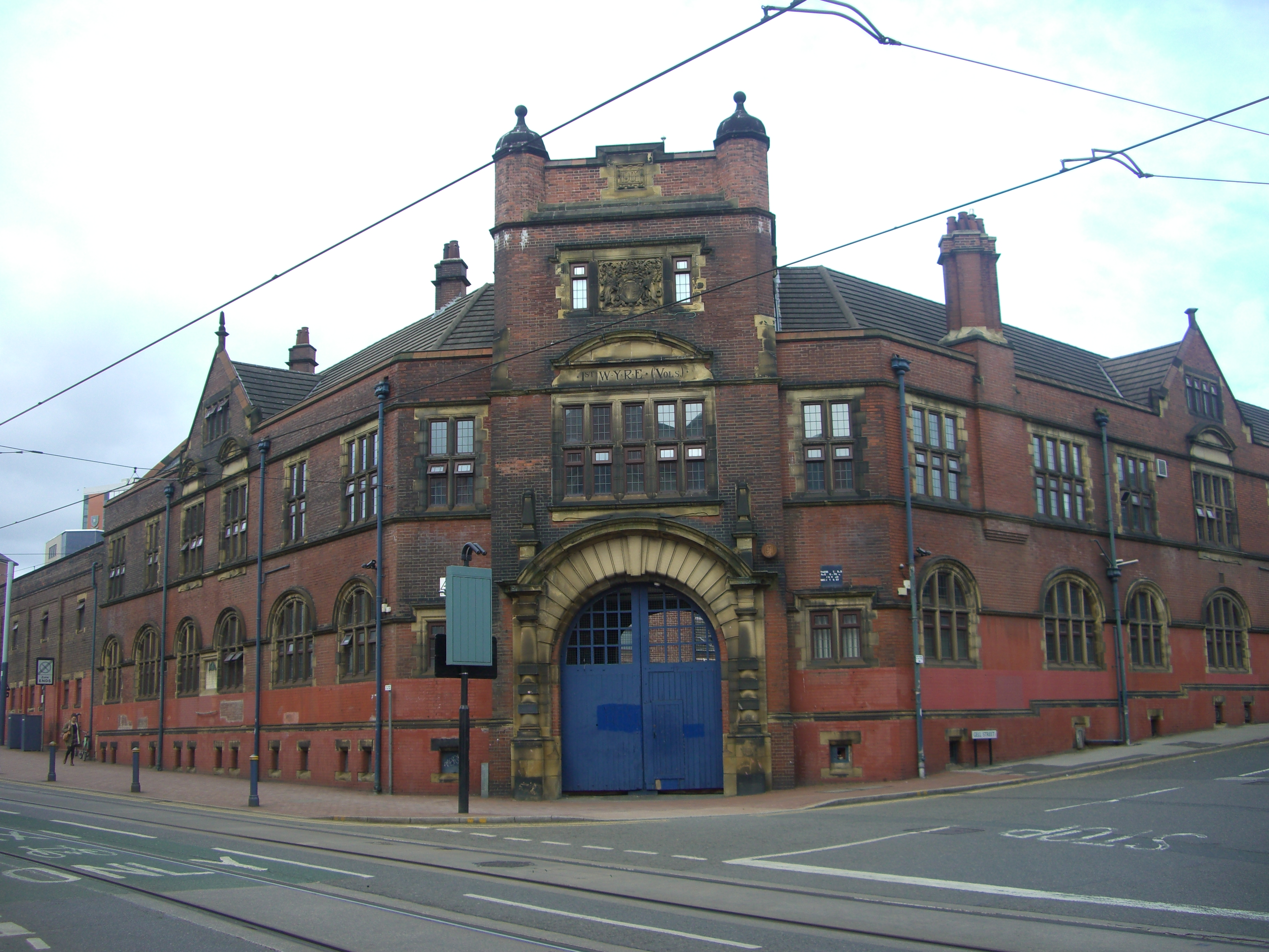 The Somme Barracks on Glossop Road, Sheffield, England. This Grade II listed building was built in 1907 and is the headquarters of the University of Sheffield Officer Training Corps.